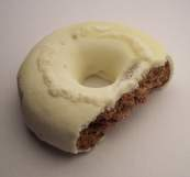 Half-eaten Verkade Filipinos white biscuit.